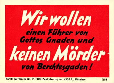 We want a leader by the grace of God and not a murderer from Berchtesgaden!